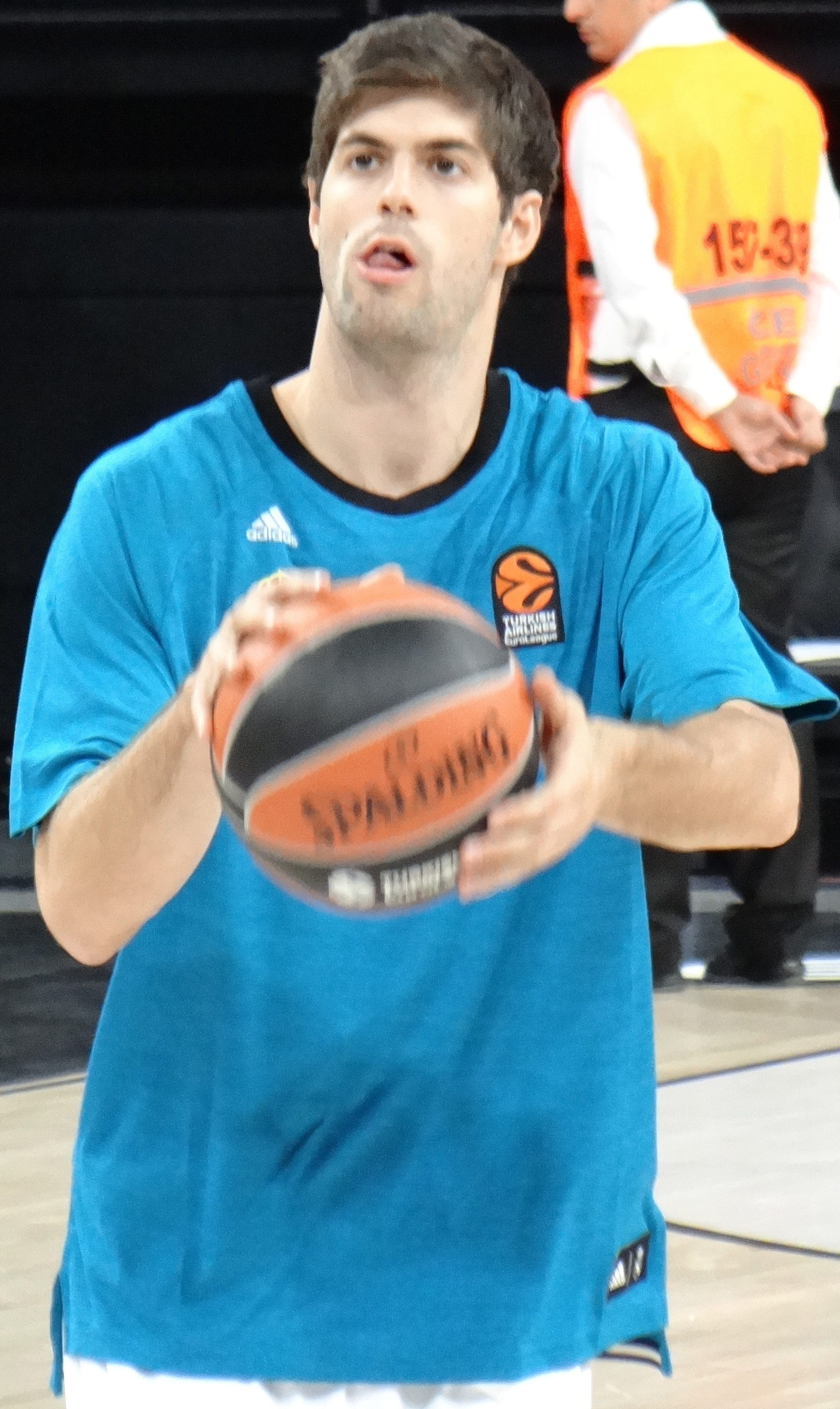 Anadolu Efes vs Real Madrid Baloncesto Euroleague 20171012